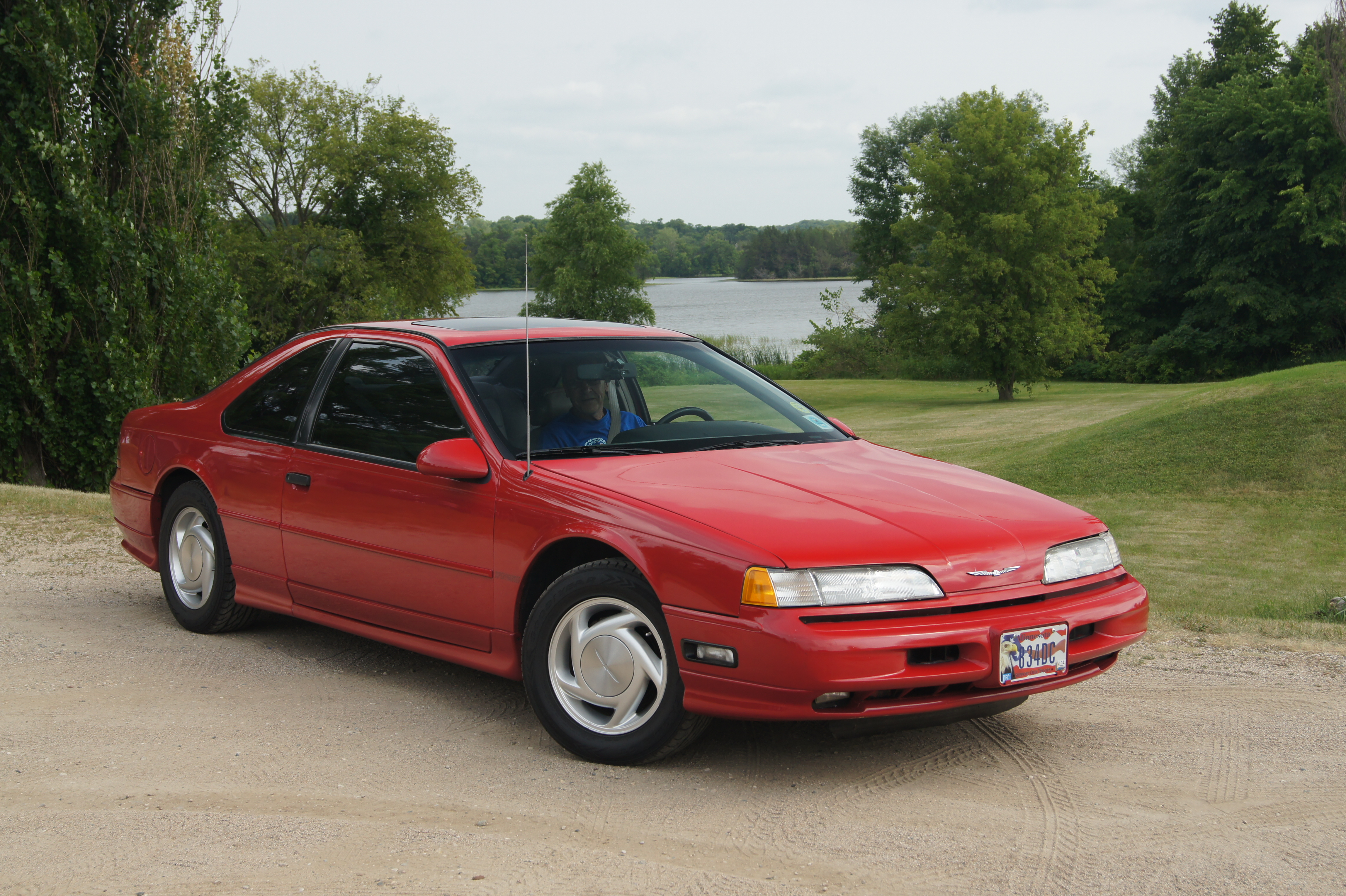 Willmar Car Club Picnic July 19, 1014 Rodvik Park New London Minnesota Cliff reserved an excellent location for the Club Picnic. There was great weather, food and company. Photos of other Willmar Car Club events